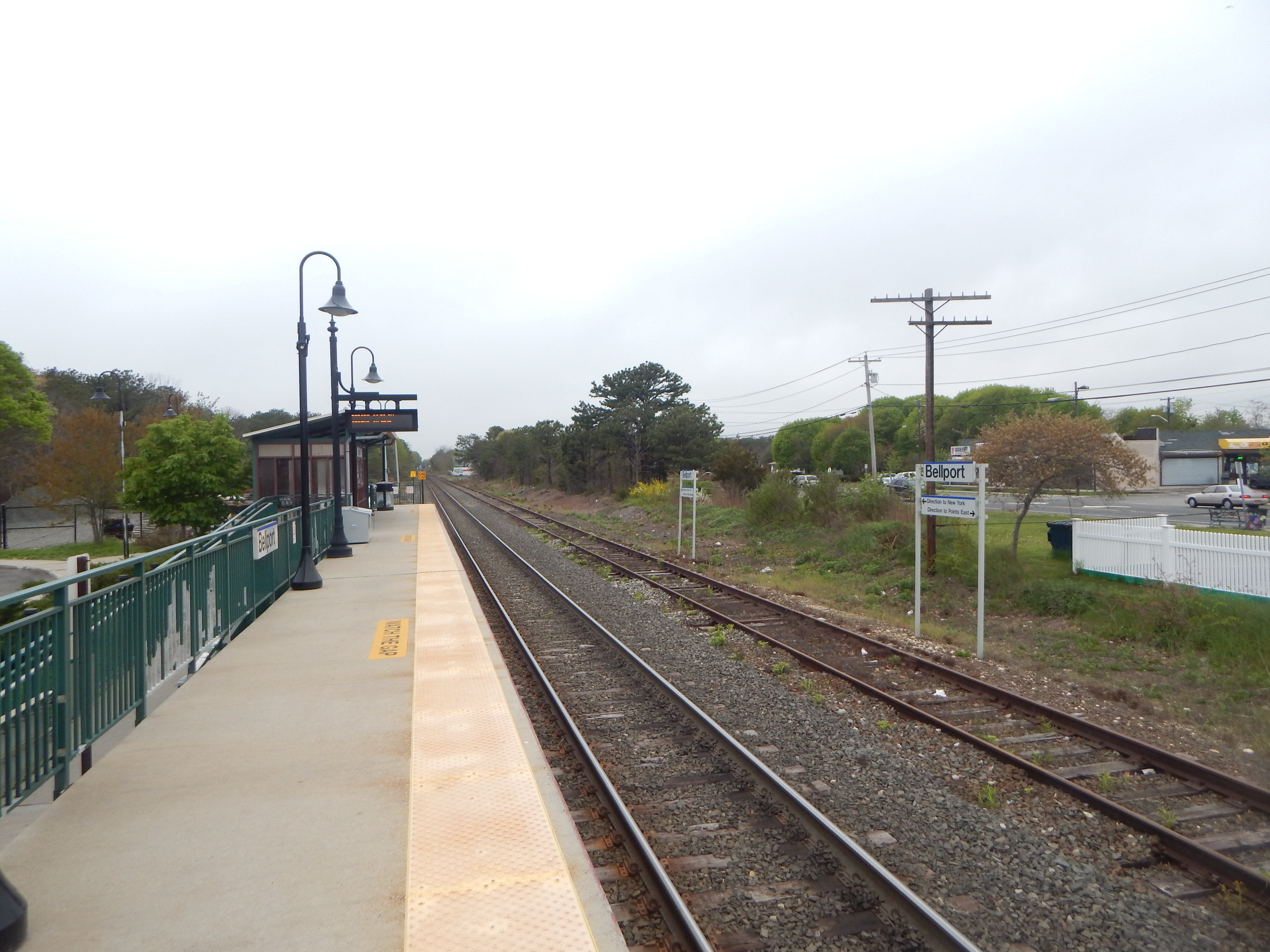 Bellport station in Bellport, New York in May 2015.